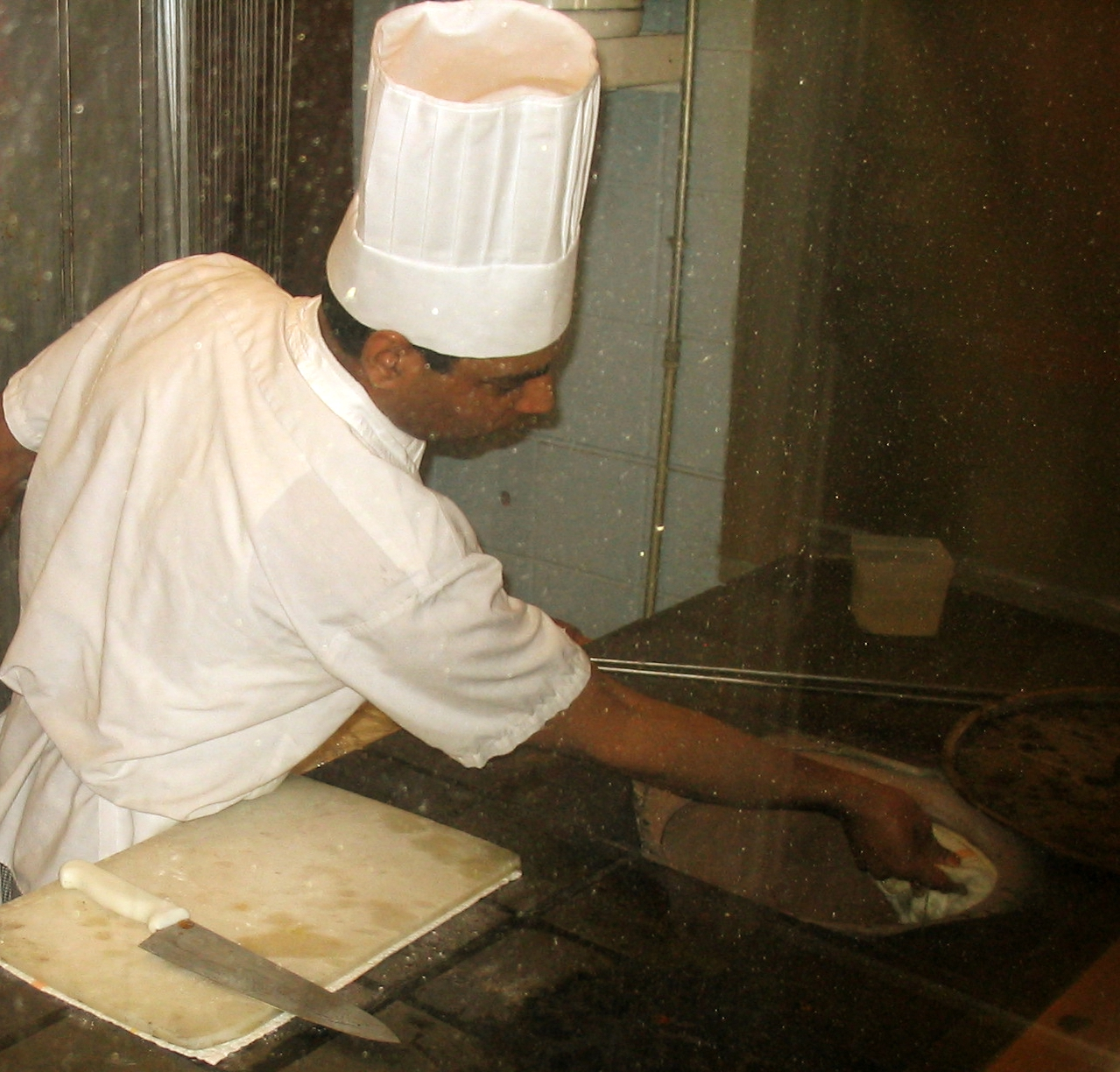 A chef working at a tandoor.